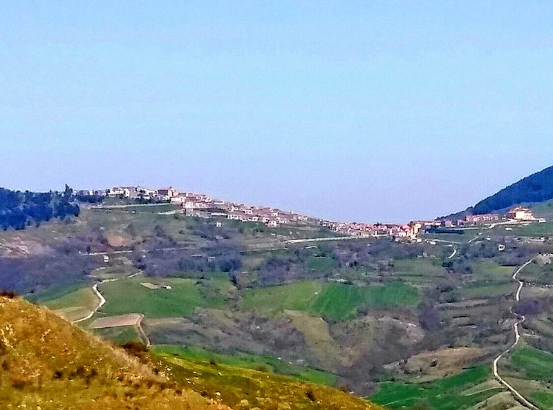 Panni viewed from Ferrara highlands, Southern Italy